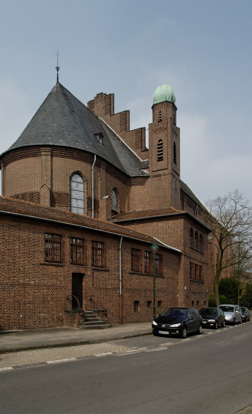 Bonifatius Church in Düsseldorf-Bilk, Germany